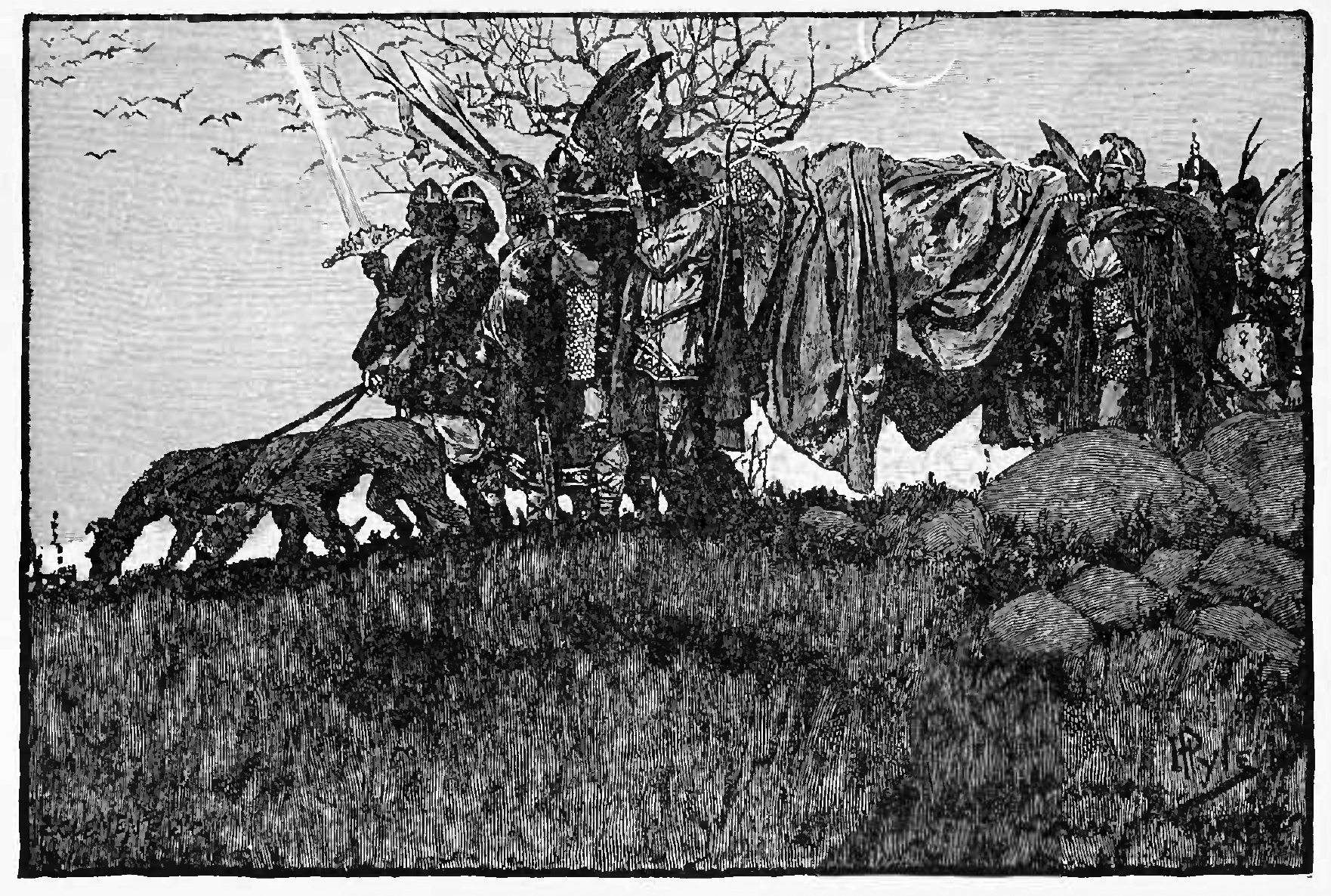 Captioned as "The Death of Siegfried". A scene from the Nibelungenlied, the dead Siegfried is carried on a shield.